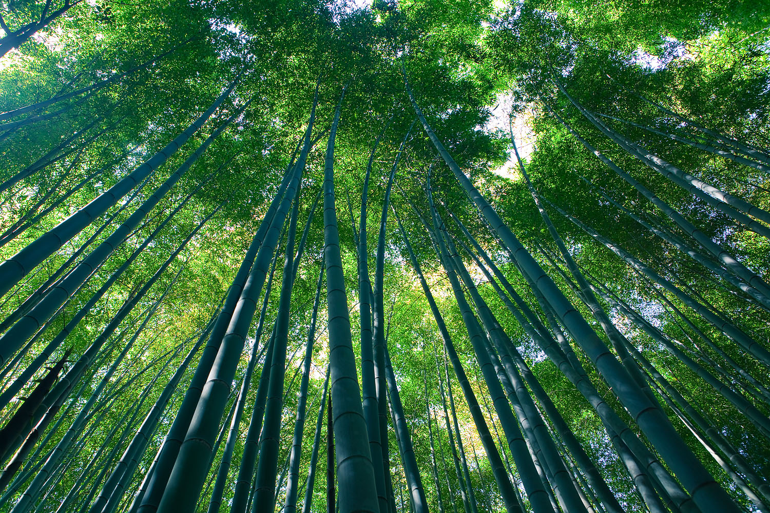 Now that's bamboo 24mm f/7.1 1.3sec @ ISO 100